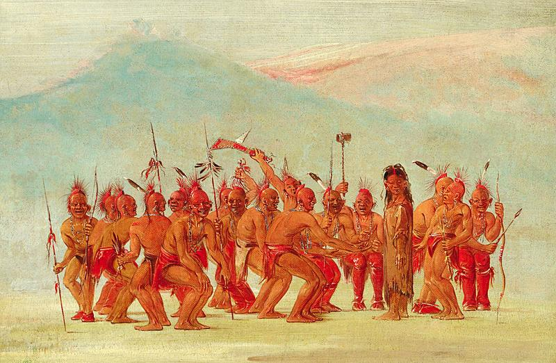 George Catlin (1796-1872), Dance to the Berdache. Drawn while on the Great Plains, among the Sac and Fox Indians, the sketch depicts a ceremonial dance to celebrate the two-spirit person.